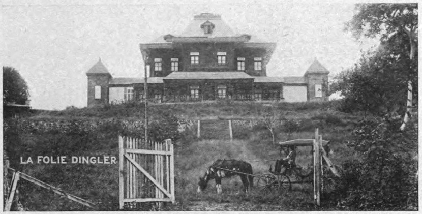 "At the foot of Ancon Hill, facing the Balboa road, stood La Folie Dingler, the house built by M. Dingler, one of the chief engineers in the days of the First French Company. It was never occupied by him but was used by the Americans as a quarantine station ; afterwards demolished to make room for the Ancon hill quarry operations.".